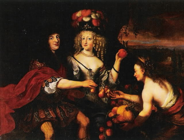 Princess Frederica Amalia of Denmark and Christian Albert, Duke of Holstein-Gottorp court